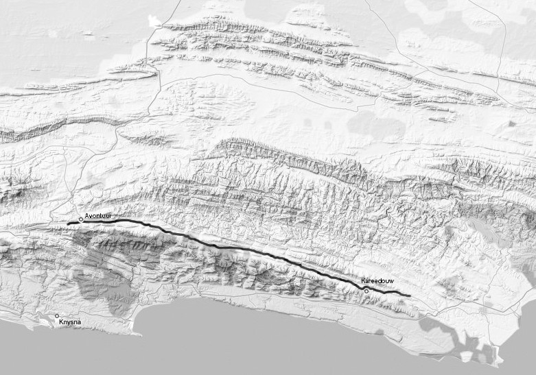 Map showing location of Langkloof